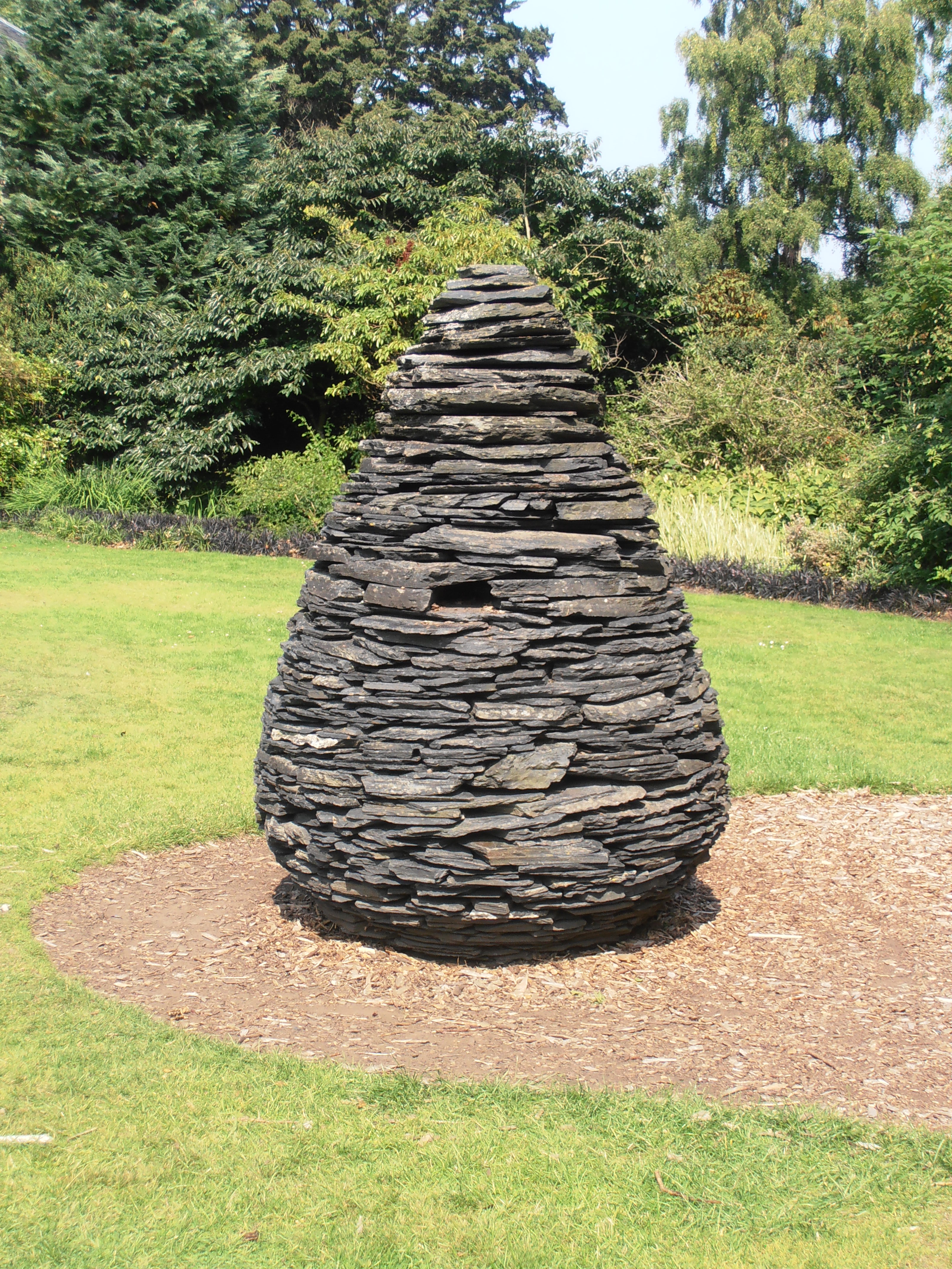 Cone (1990) by Andy Goldsworthy, Royal Botanic Garden, Edinburgh